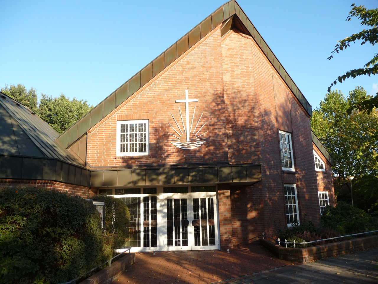 new-apost. church in Bremen-Arsten